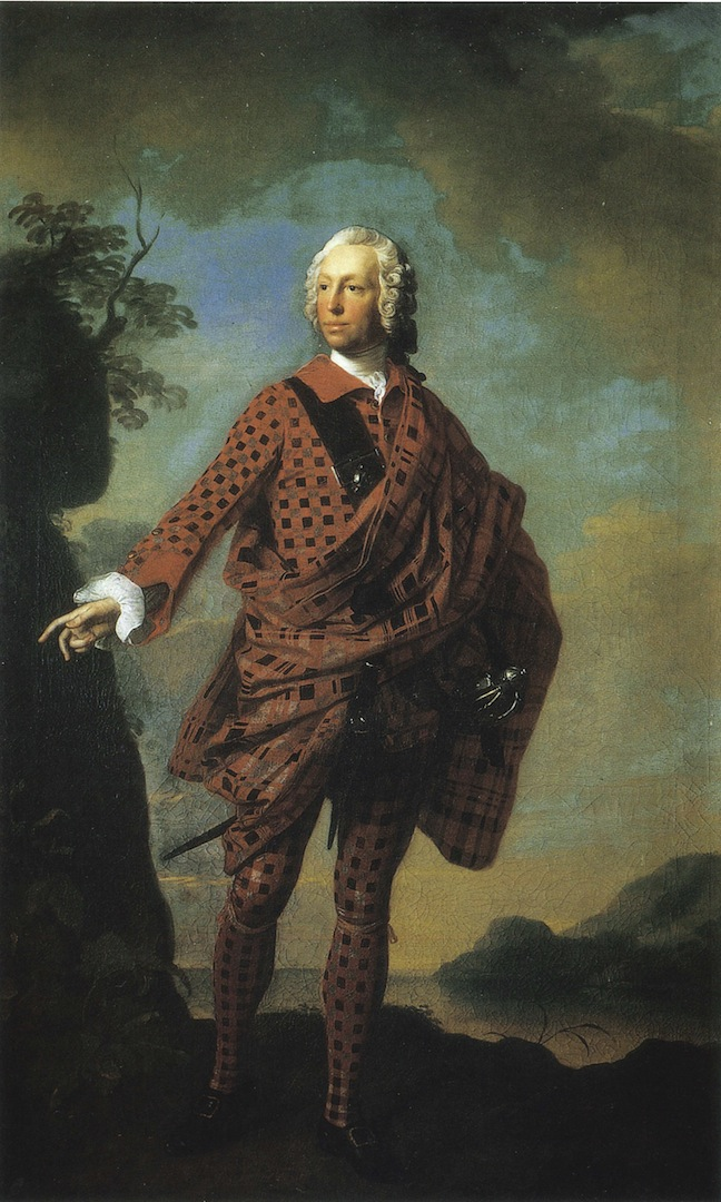 A painting of Norman MacLeod (1705-1722), chief of Clan MacLeod.